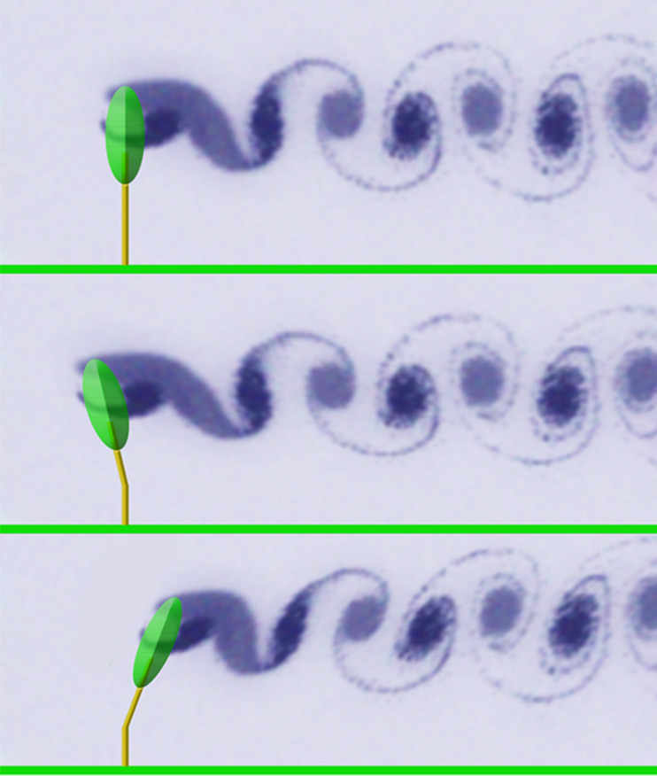 theoretical and highly simplified representation of turbulence generated downstream of a tree by a steady wind. Compared with a fixed turbulence is modified by the swaying of the tree (and in fact much more complex by the percolation of flow in the branches and leaves). Turbulence are important for the hedgerow and forest microclimates, air traffic pollen, invertebrates and microorganisms airborne propagules (eg spores of mosses, lichens and other epiphytes), but also plant hormones and airborne odors ( floral fragrance that attracts bees and butterflies, for example, or stress hormones that attract other species.)